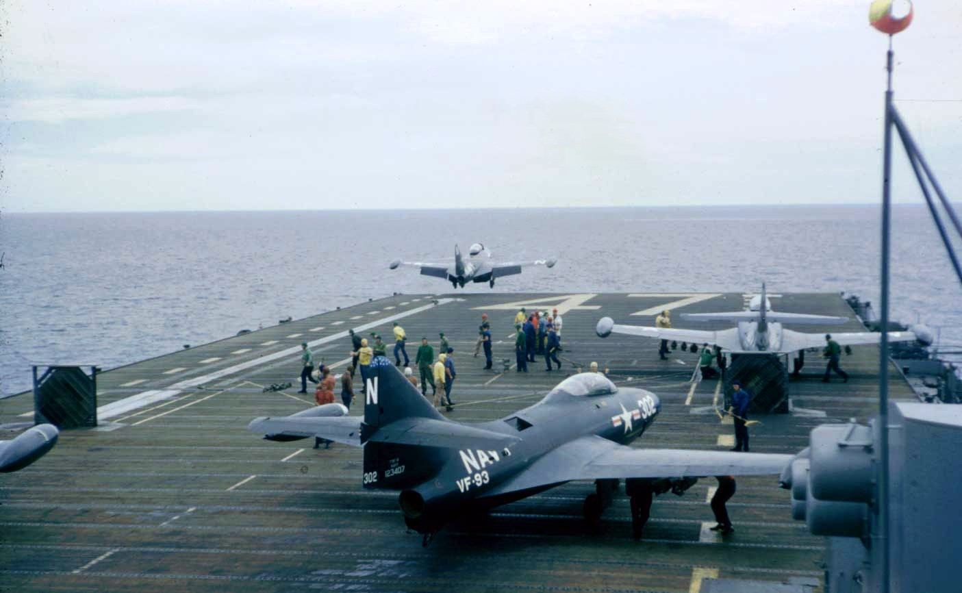 U.S. Navy Grumman F9F-2 Panther fighters of fighter squadron VF-93 Blue Blazers being launched for a mission over Korea from the aircraft carrier USS Philippine Sea (CV-47). VF-93 was assigned to Carrier Air Group 9 (CVG-9) for a deployement to Korea and the Western Pacific from 15 December 1952 to 14 August 1953.